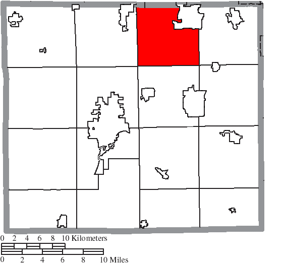 Map of the municipal and township boundaries of Wayne County, Ohio, United States, as of the 2000 census, with the location of Milton Township highlighted. Township borders are shown only in unincorporated areas in order to differentiate incorporated and unincorporated areas more clearly.